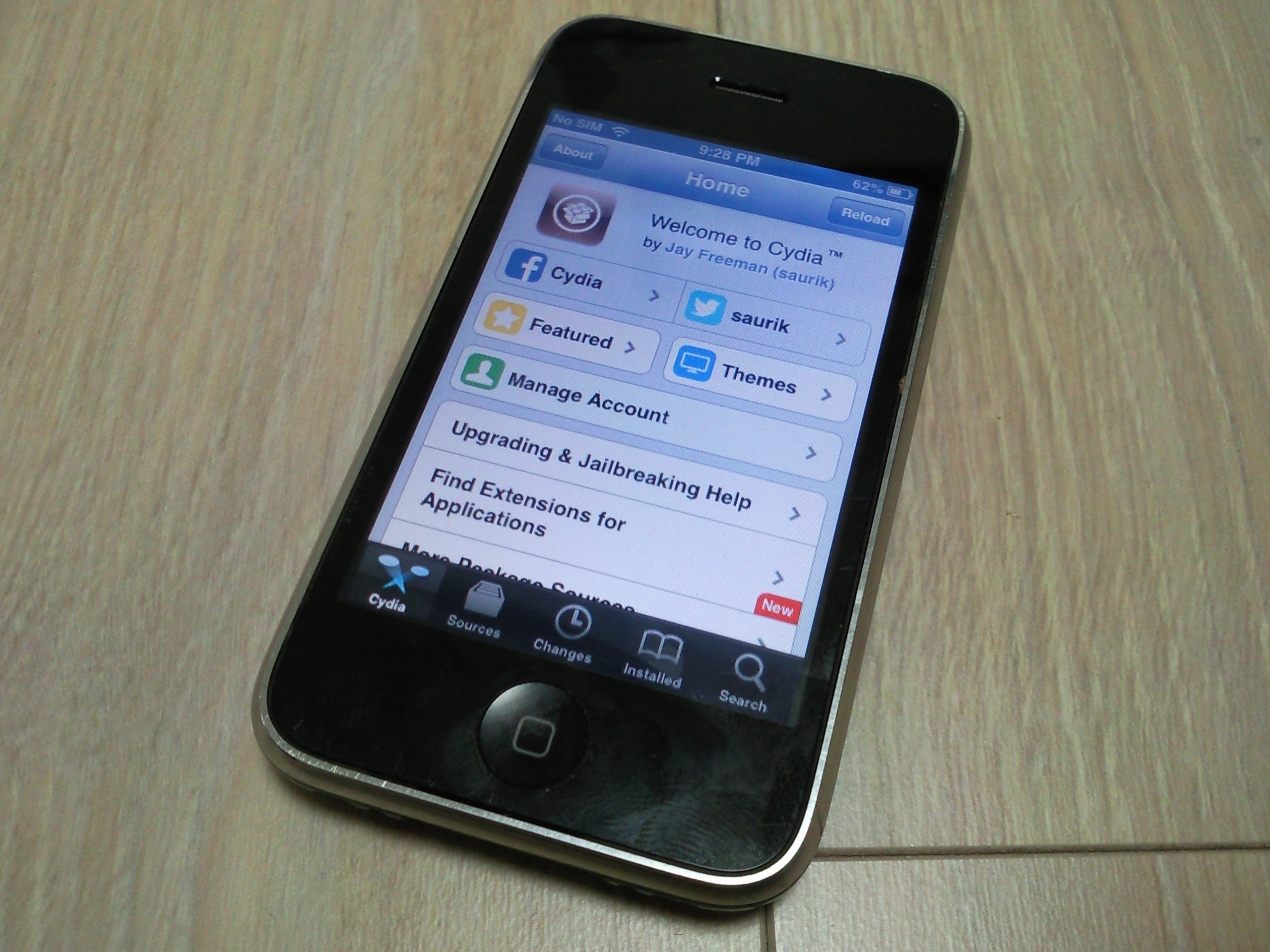 iOS jailbreak store, cydia